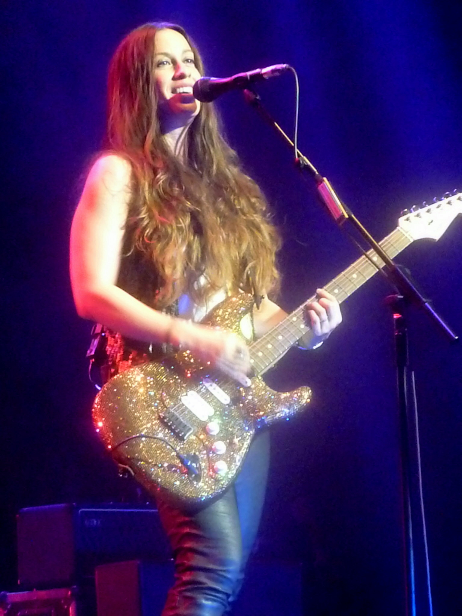 Alanis performing live June 30th 2012